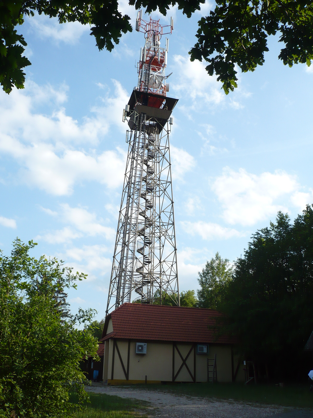 Observation Tower Travicna, Tvarožná Lhota, Hodonín, Czech Republic